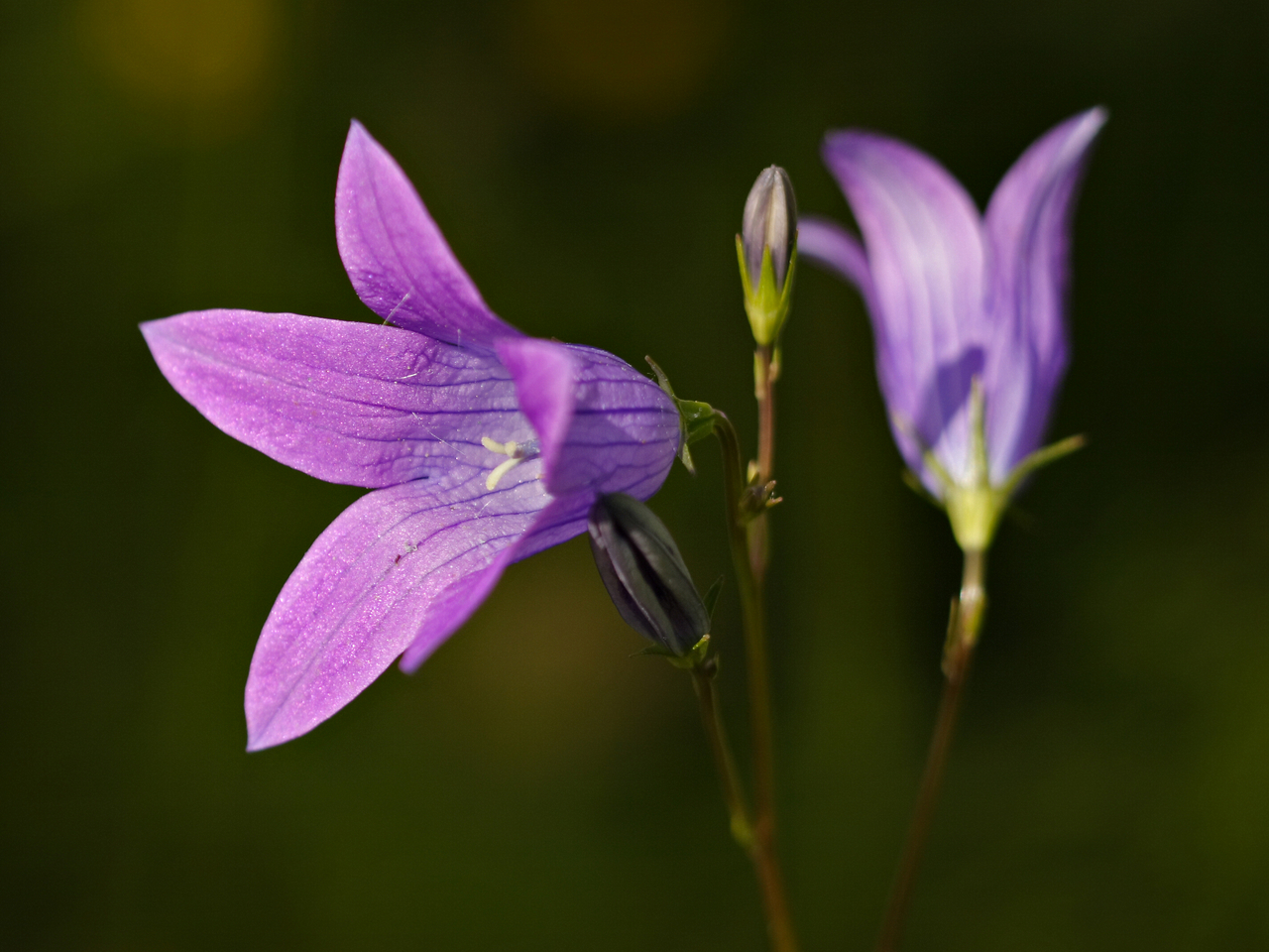 Spreading Bellflower (Campanula patula) Dysmorodrepanis 11:02, 28 May 2008 (UTC)